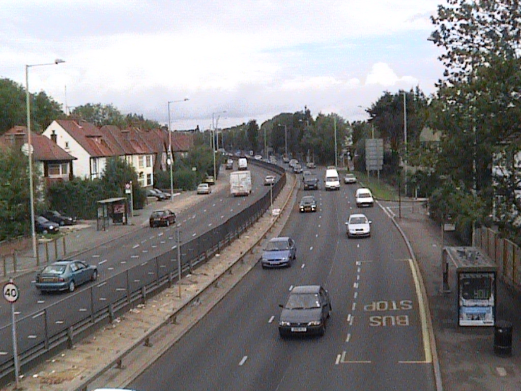 A406 near Brent Cross Shopping Centre and Brent Cross tube station, 26 August 2006. (C) Andrew Hamm 2006. You may use this image for any purpose, with or without citation.